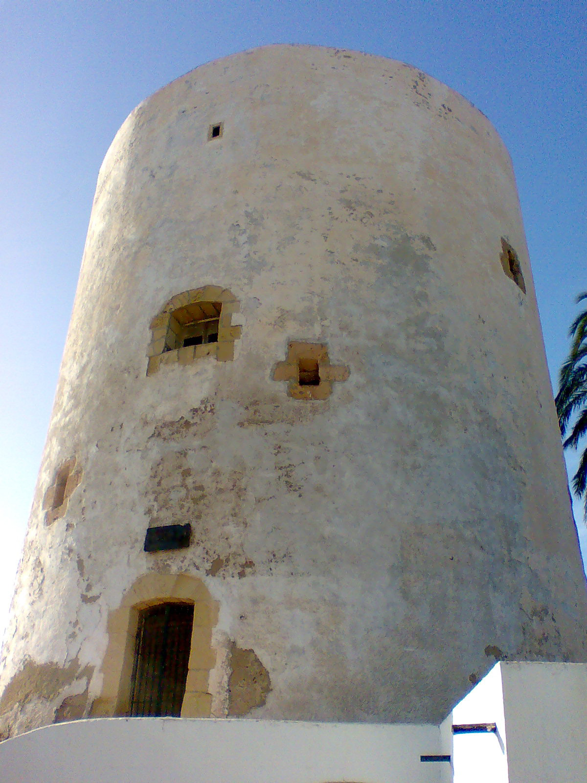 Cabo Roig tower, Orihuela Coast.